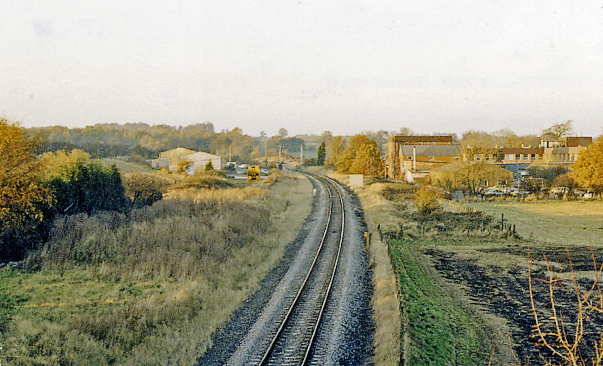 Site of Chipping Campden station, 1988. View NW, to the station site and towards Evesham and Worcester: ex-GWR Oxford - Worxester main line. The station was closed from 3/1/66 and the main line was singled at the time, but this was one more false economy and the line has had to be doubled again in recent years.